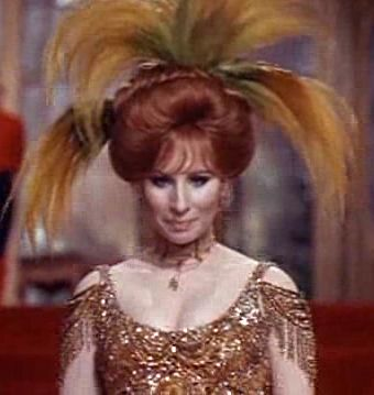 Screenshot of Barbra Streisand from the trailer for the film Hello, Dolly!